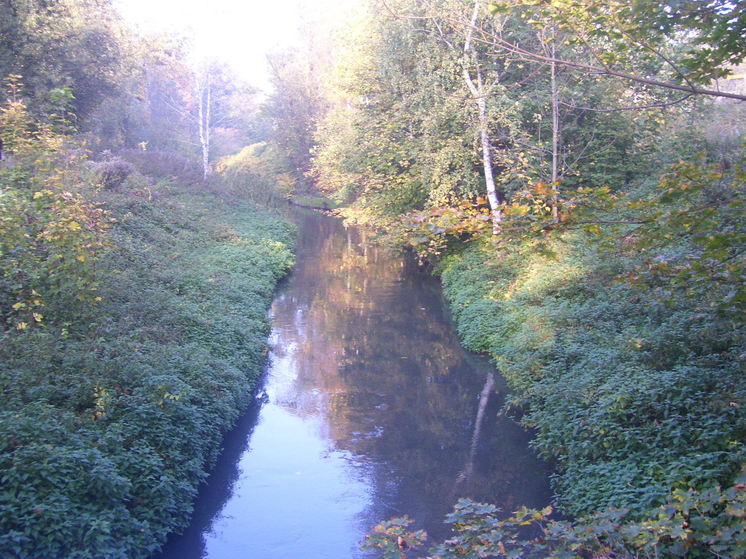 River Bytomka